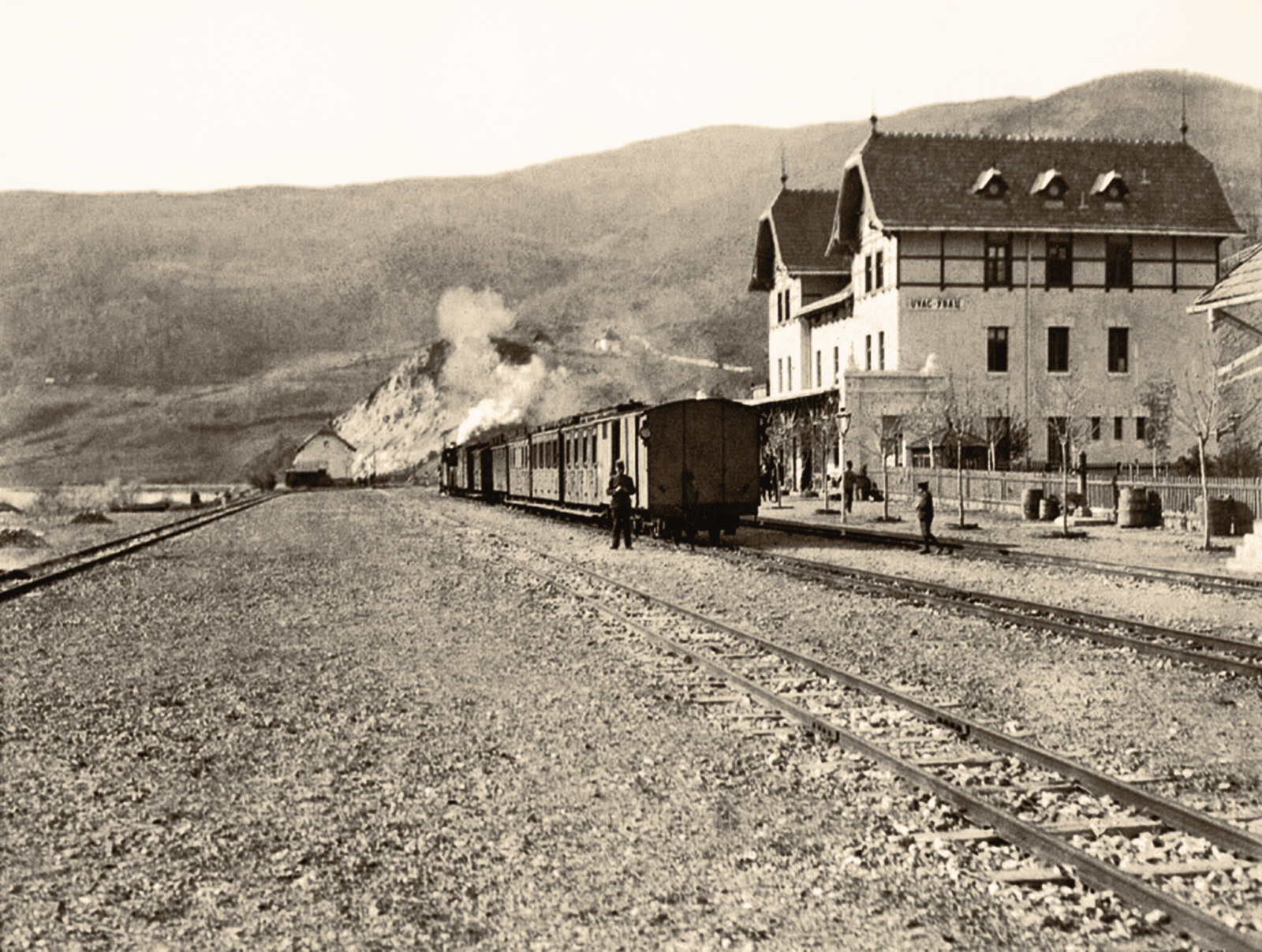 Railway station Uvac in 1906 with a train ready to depart towards Sarajevo.